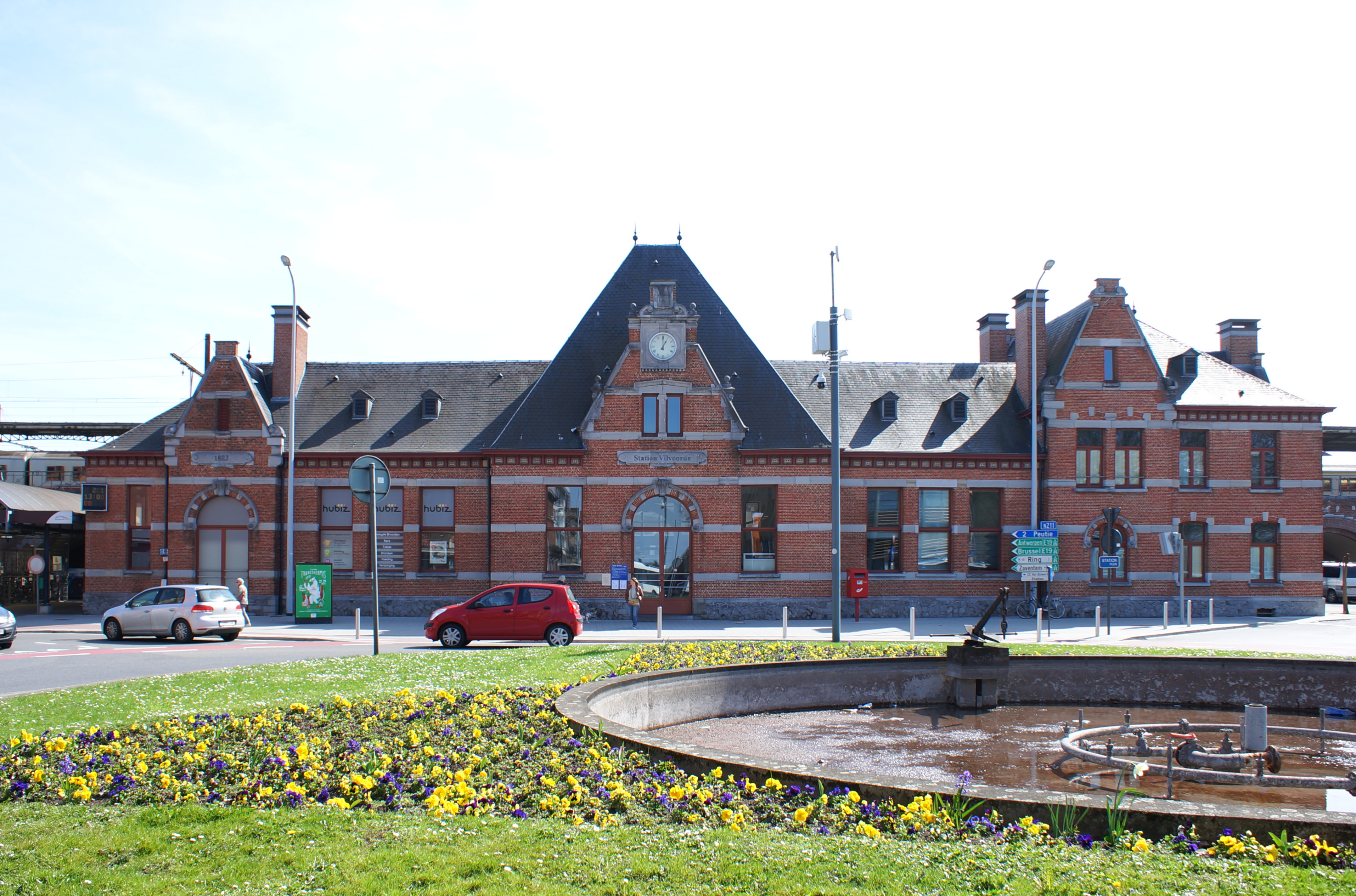 Vilvoorde Station - Frontage - Work by architect Henri Fouquet